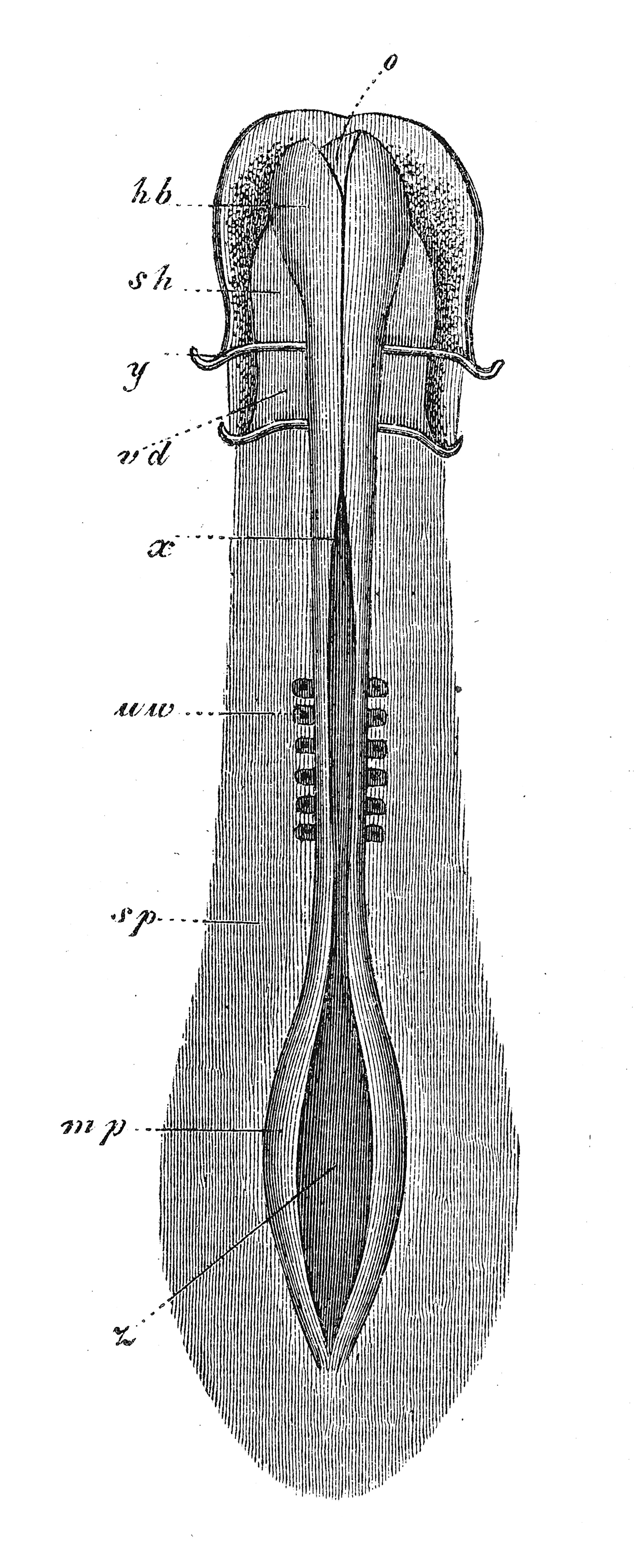 Embryo, showing development of central nervous system. General Collections Keywords: Embryology